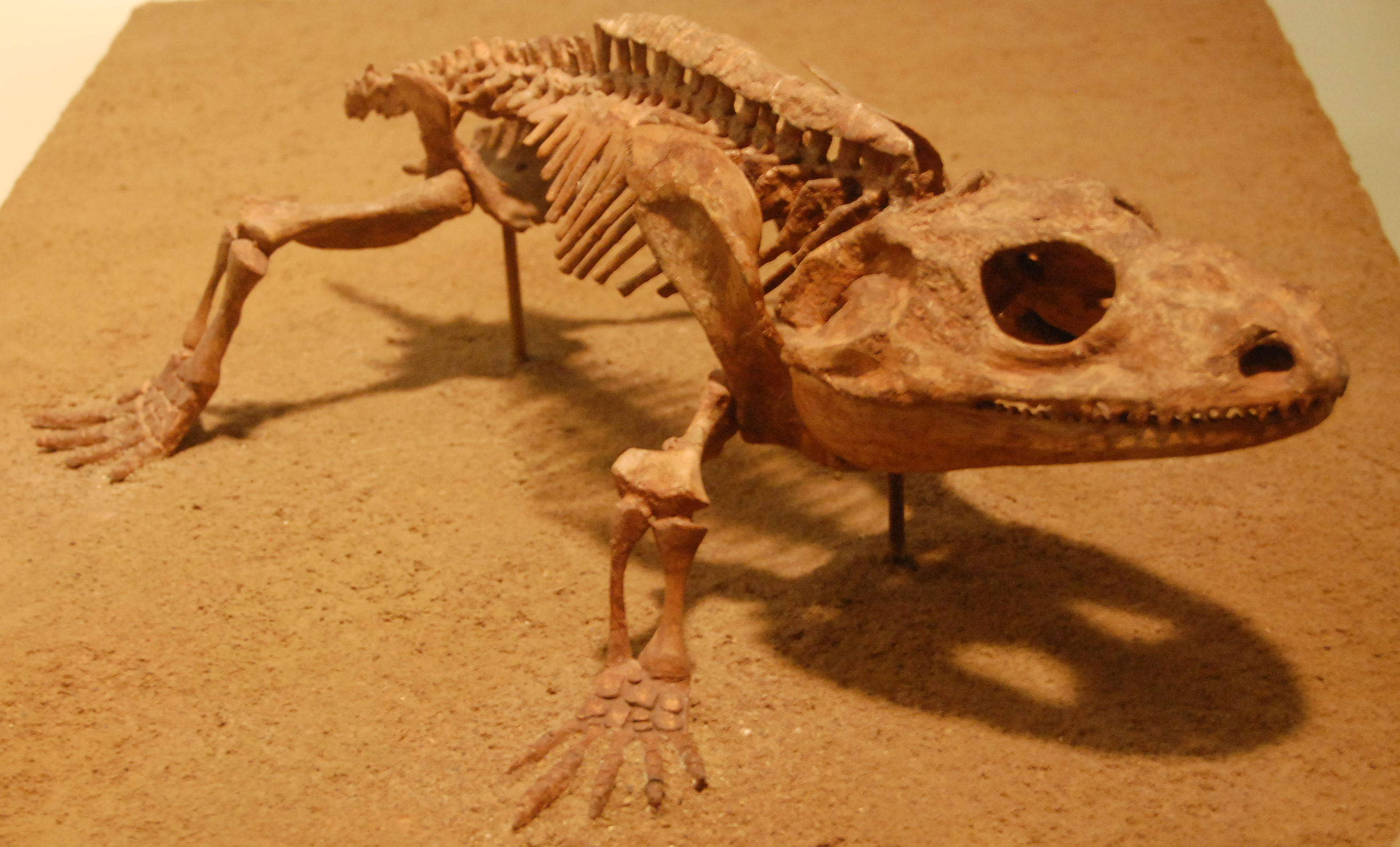 Cacops species in the Field Museum